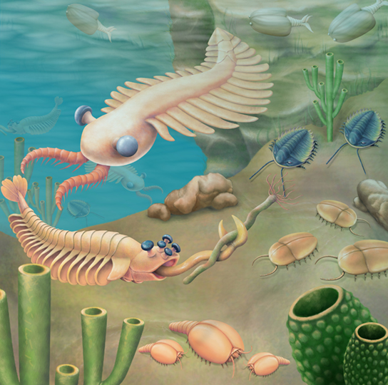 Name: Chemistry ID: Language: English Summary: Chemistry is designed for the two-semester general chemistry course. For many students, this course provides the foundation to a career in chemistry, while for others, this may be their only college-level science course. As such, this textbook provides an important opportunity for students to learn the core concepts of chemistry and understand how those concepts apply to their lives and the world around them. The text has been developed to meet the scope and sequence of most general chemistry courses. At the same time, the book includes a number of innovative features designed to enhance student learning. A strength of Chemistry is that instructors can customize the book, adapting it to the approach that works best in their classroom. Subjects: Science and Technology OpenStax Featured Keywords: Print Style: CCAP Chemistry License: Creative Commons Attribution License (by 4.0) Authors: OpenStax Copyright Holders: Rice University Publishers: OpenStax OpenStax Chemistry Latest Version: 9.311 First Publication Date: Oct 2, 2014 Latest Revision: Jun 20, 2016 Last Edited By: OpenStax Chemistry